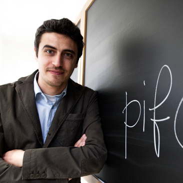 Foto di Elisa Caldana / Cinemazero